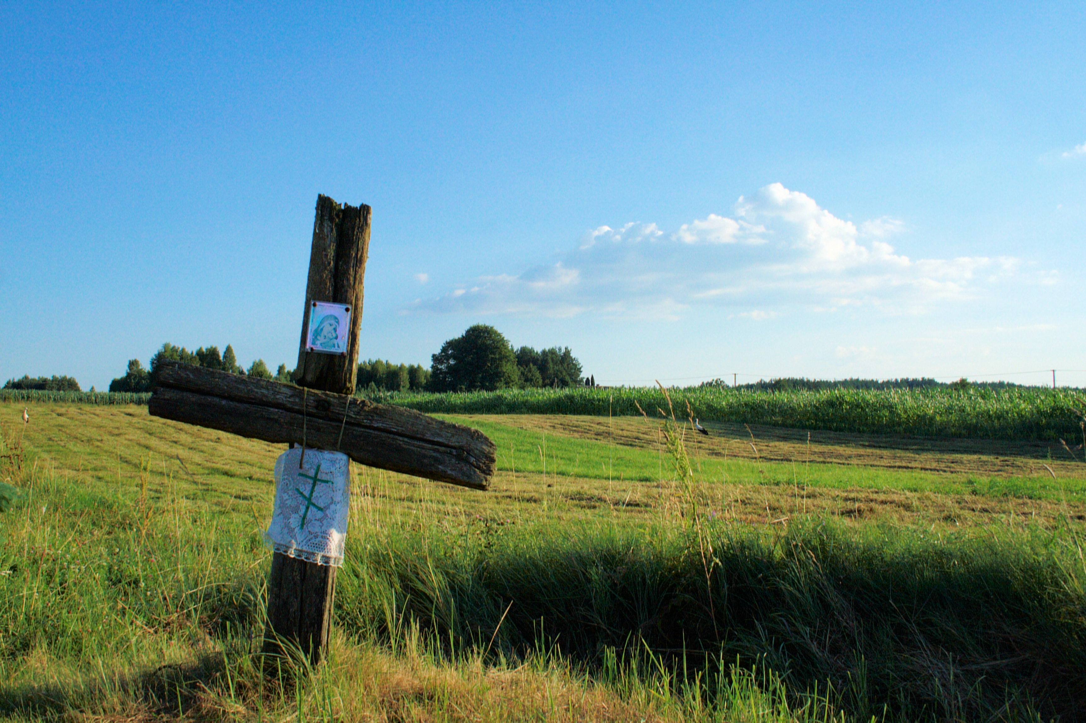 A votive cross at the east end of Soce village